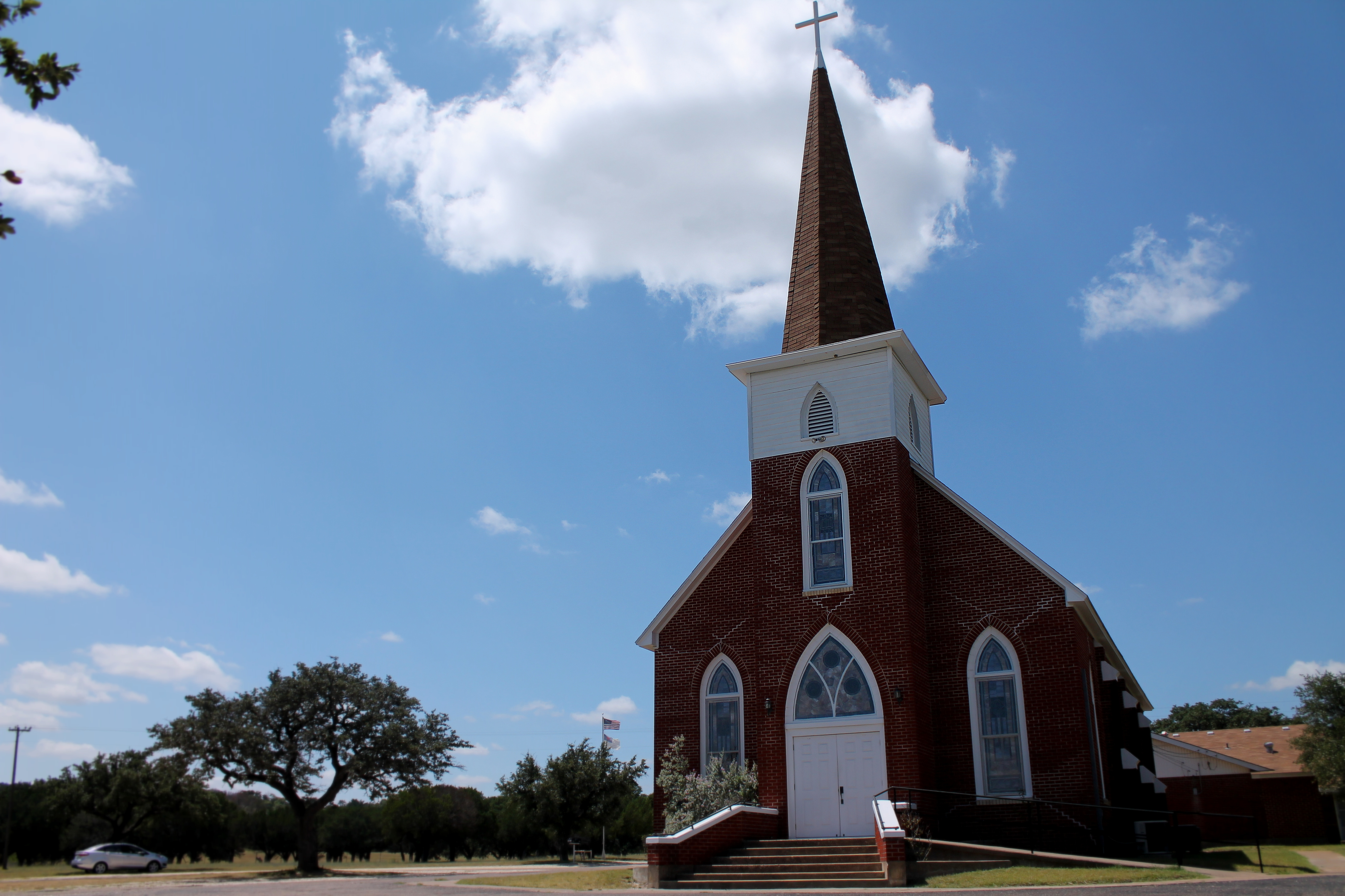 Our Savior's Lutheran Church in Norse, Texas. The church was built in 1886.